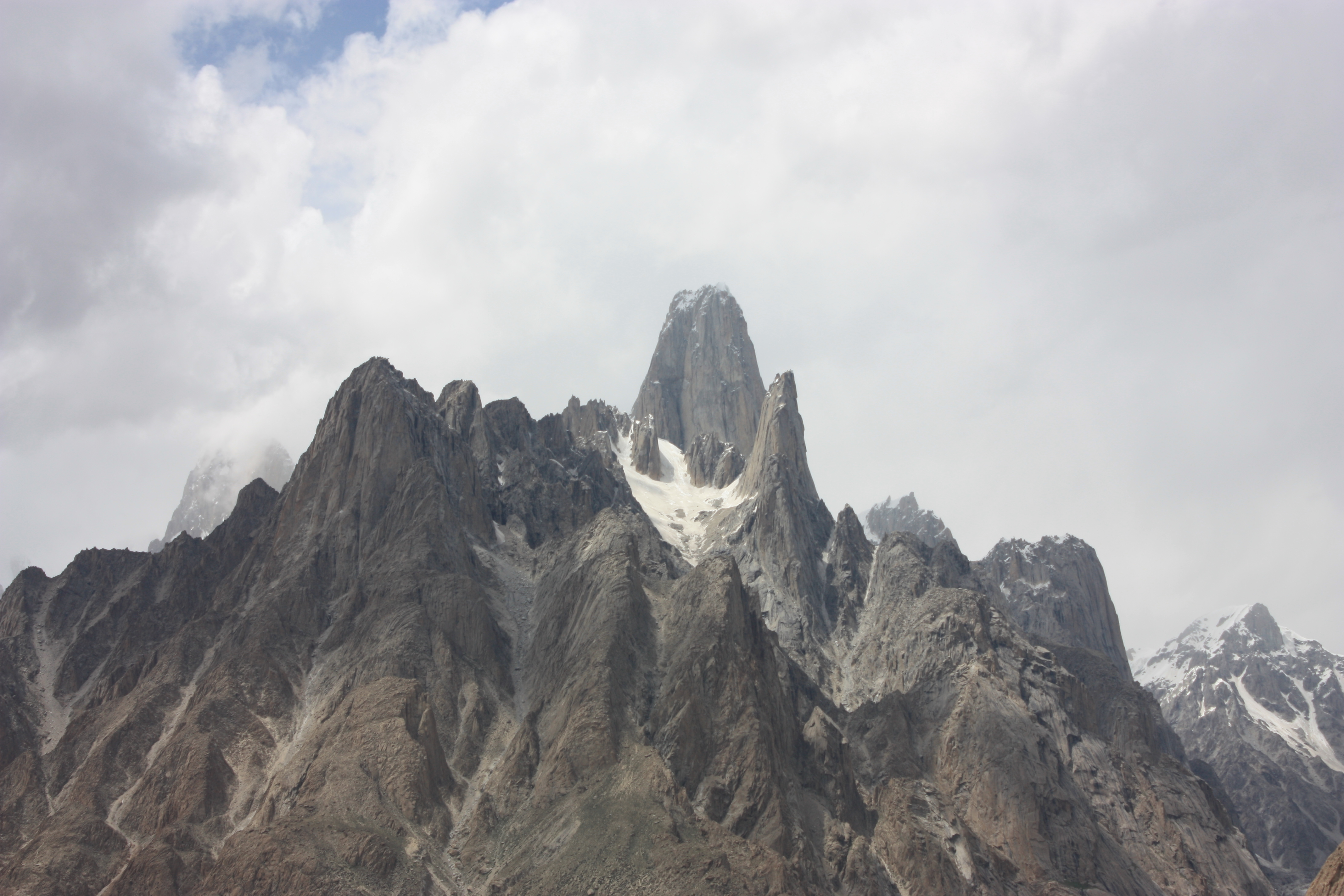 Uli Biaho Tower